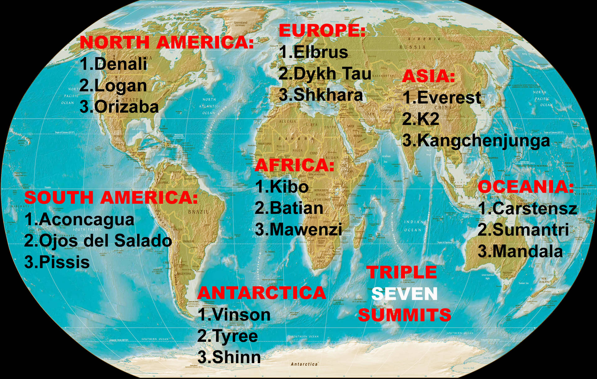 A world map showing the three highest moutains/summits of all seven continents, including continent and peak names.